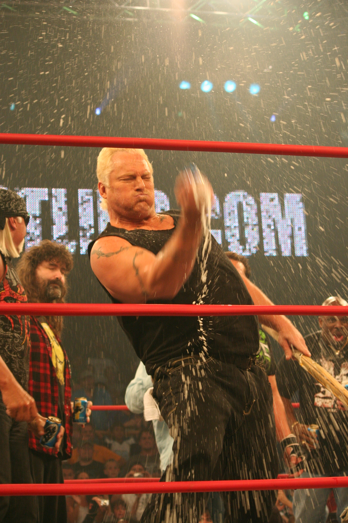 Professional wrestler Sandman at a TNA Impact! taping